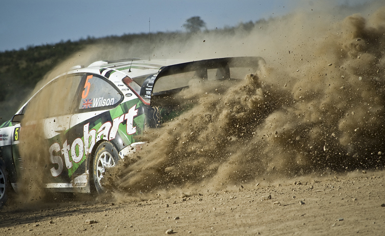 Eddie Stobart rally car in Portugal